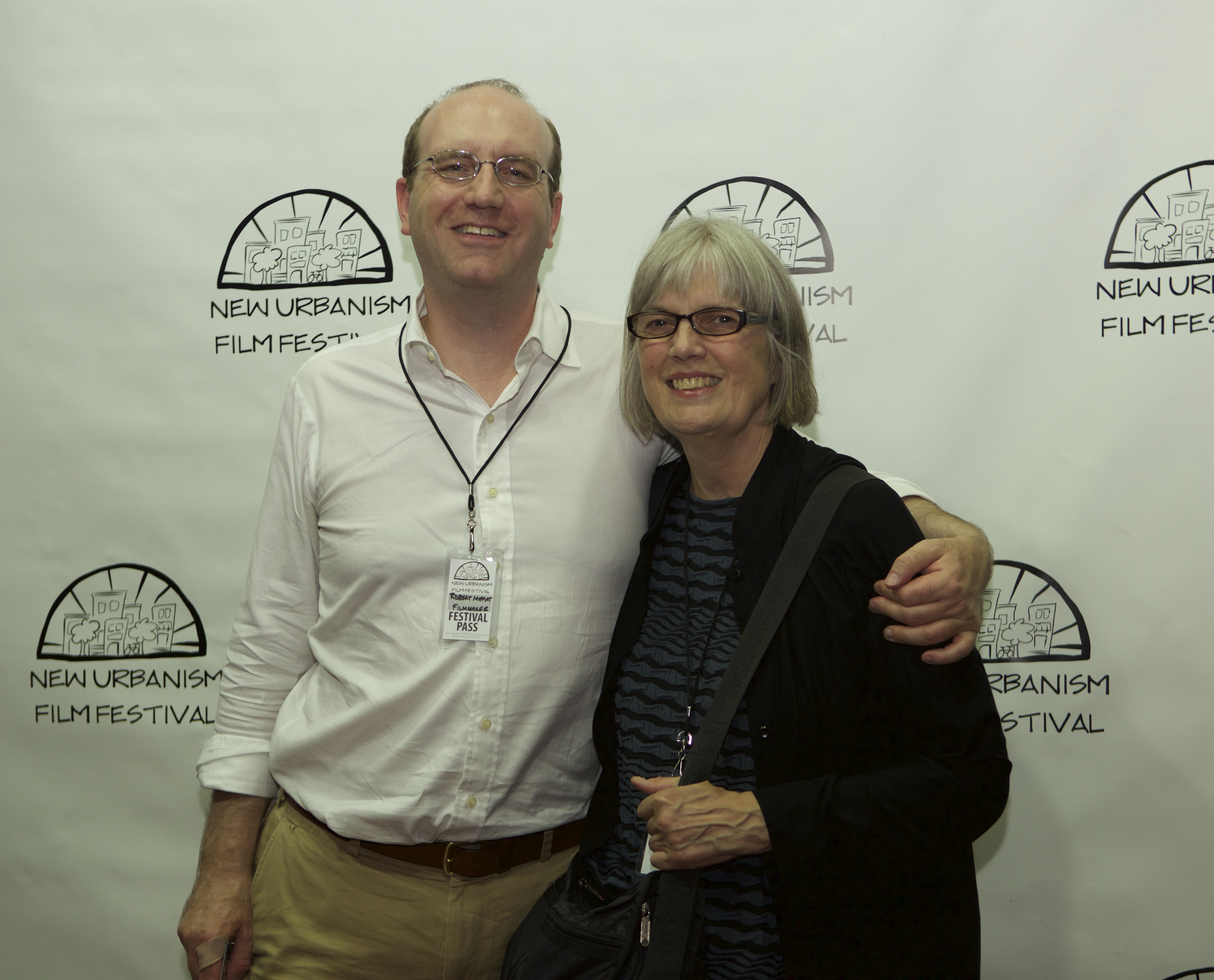 The 3rd annual New Urbanism Film Festival was held at the Acme Comedy Theater in West Hollywood. Two of my films were screened during the fest: "Diagnose Your Habitat" and "What I See in the D."